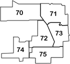 Redivided community areas. North side of Chicago, adapted from the Community areas of Chicago map. Created in Macromedia Flash 4. PNG-8 Index transparency.